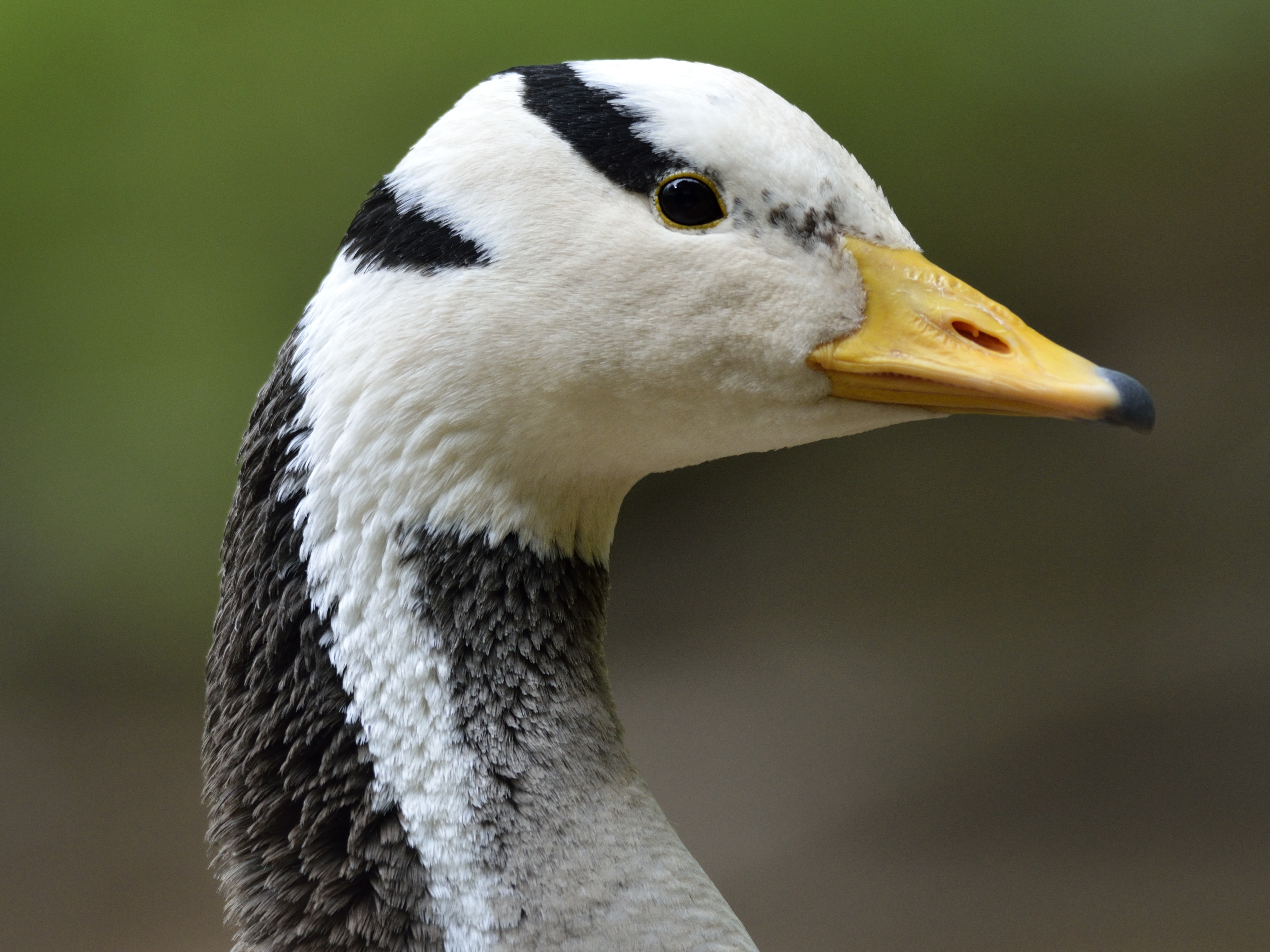 Bar-headed Goose (Anser indicus)